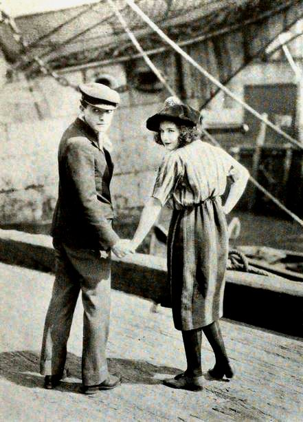 Still for the American film Fury (1923) with Richard Barthelmess and Dorothy Gish, page 70 of the December 1922 Photoplay.